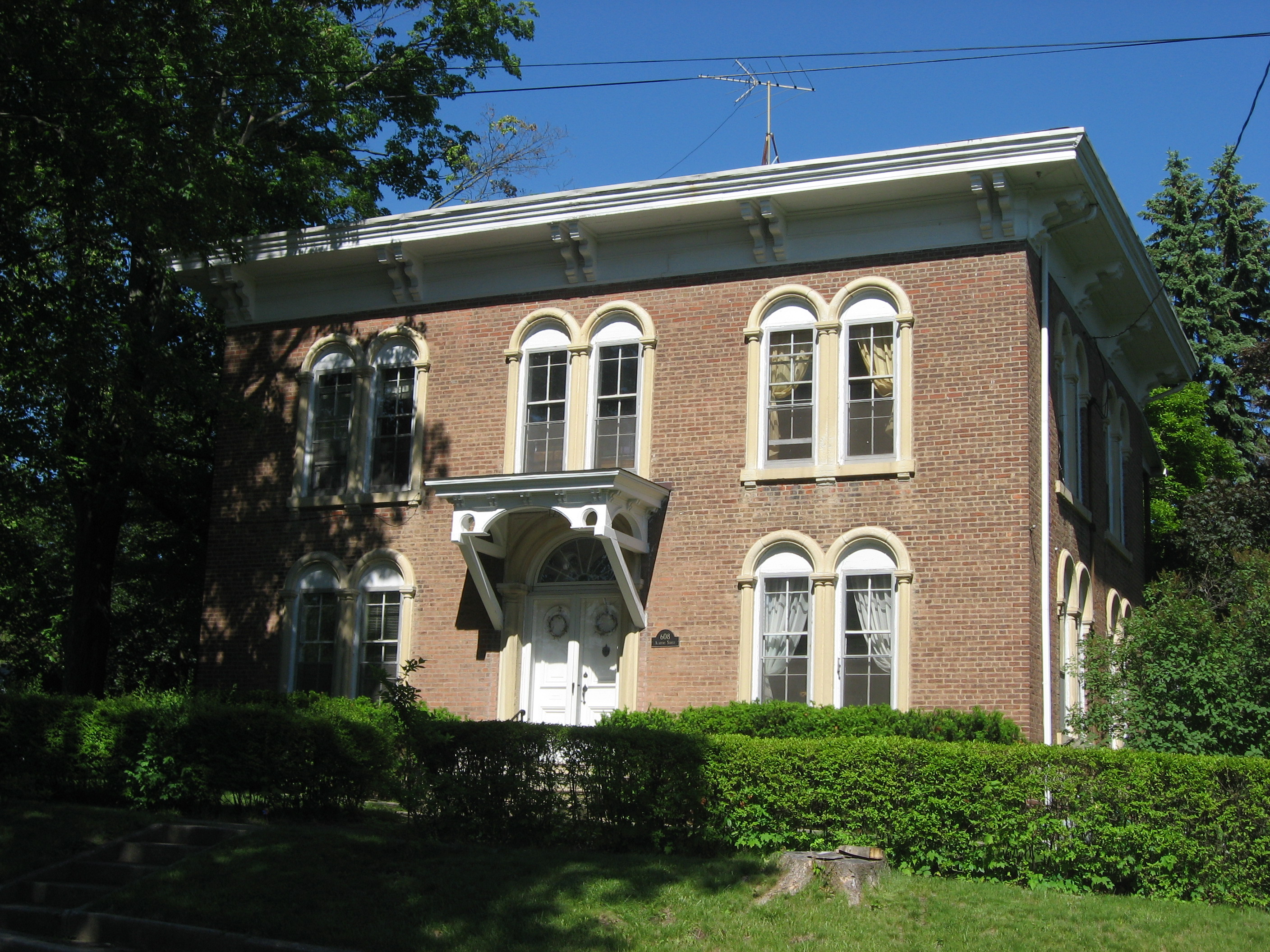 Front of the Conrad and Catherine Bloch House, located at 608 N. Academy Street in Valparaiso, Indiana, United States. Built in 1873 and formerly used as the city hospital, it is listed on the National Register of Historic Places.